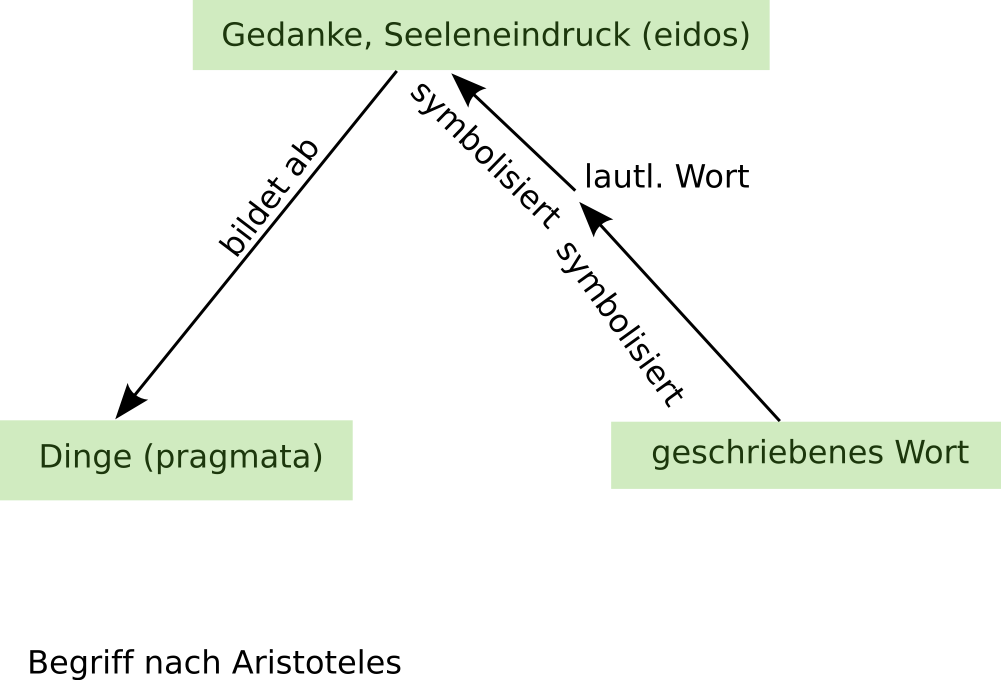 philosophy/linguistics : what is a meaning ? (Aristoteles)